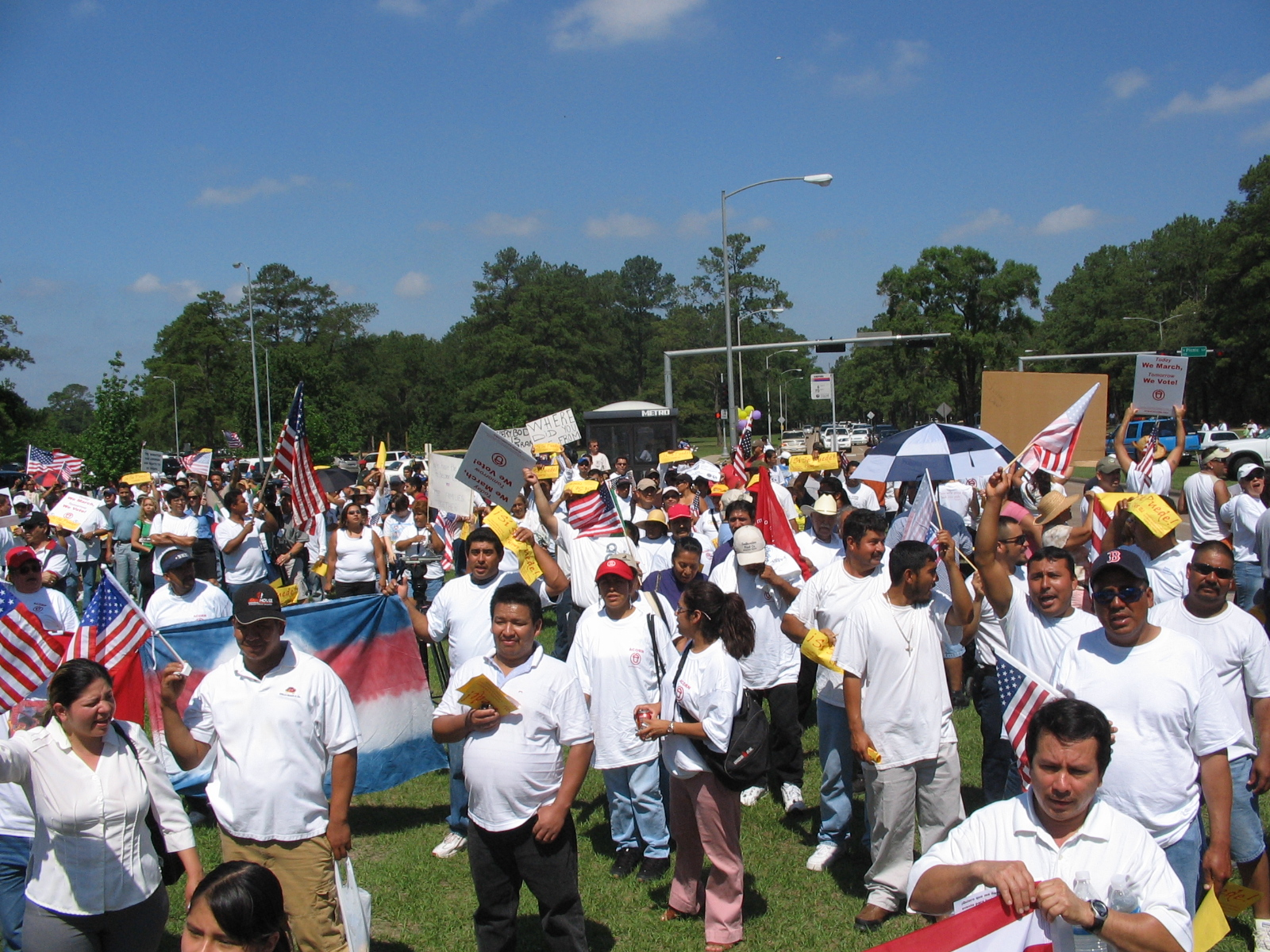 A day without immigrants, May 1, 2006. Descriptions shall come later.